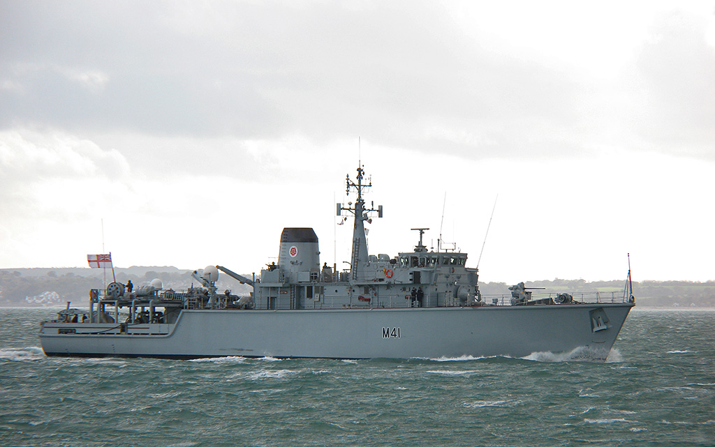 HMS Quorn (M41) photographed on the 23 of October 2008 by Brian.Burnell.